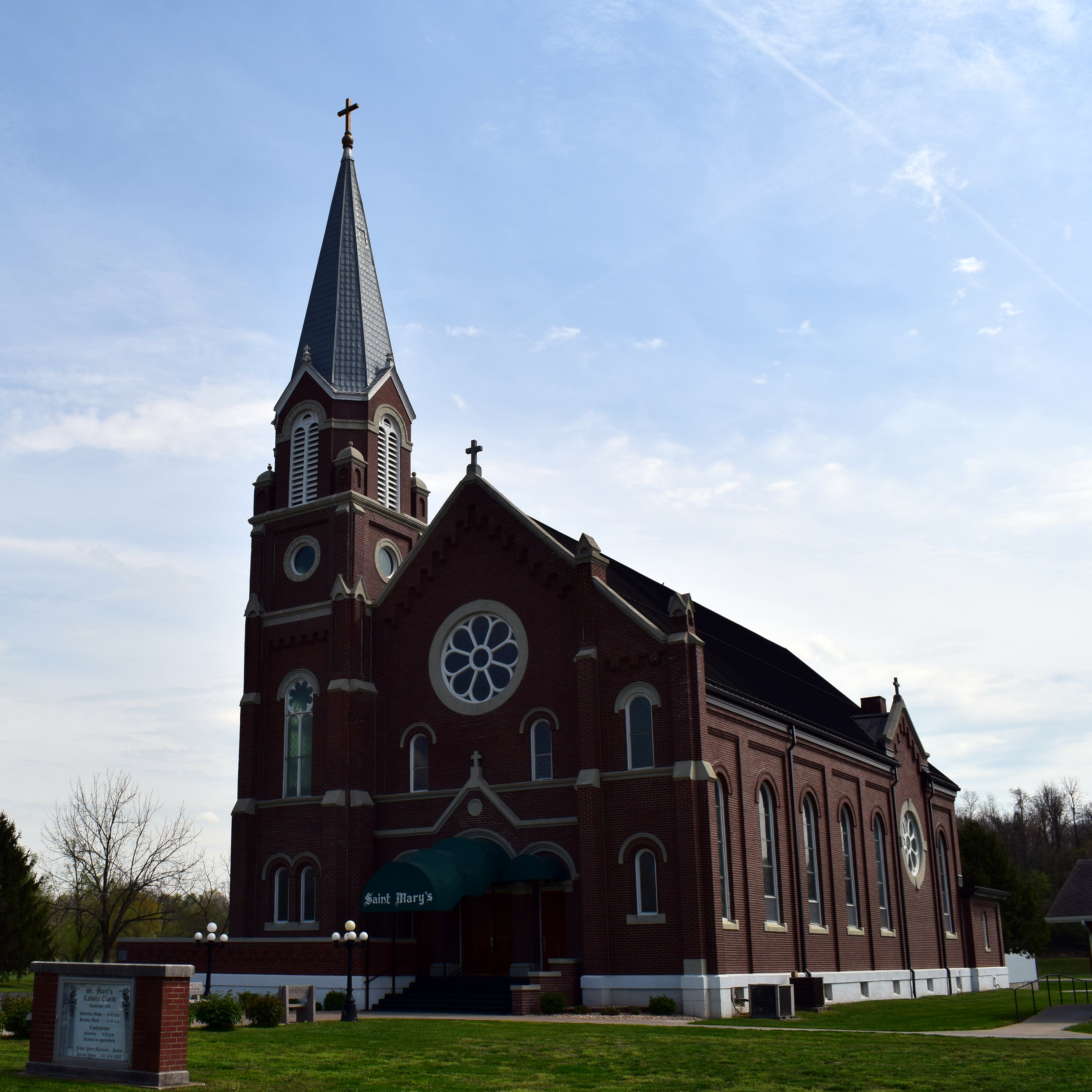 Saint Mary's Catholic Church (Pierce City, Missouri) - exterior